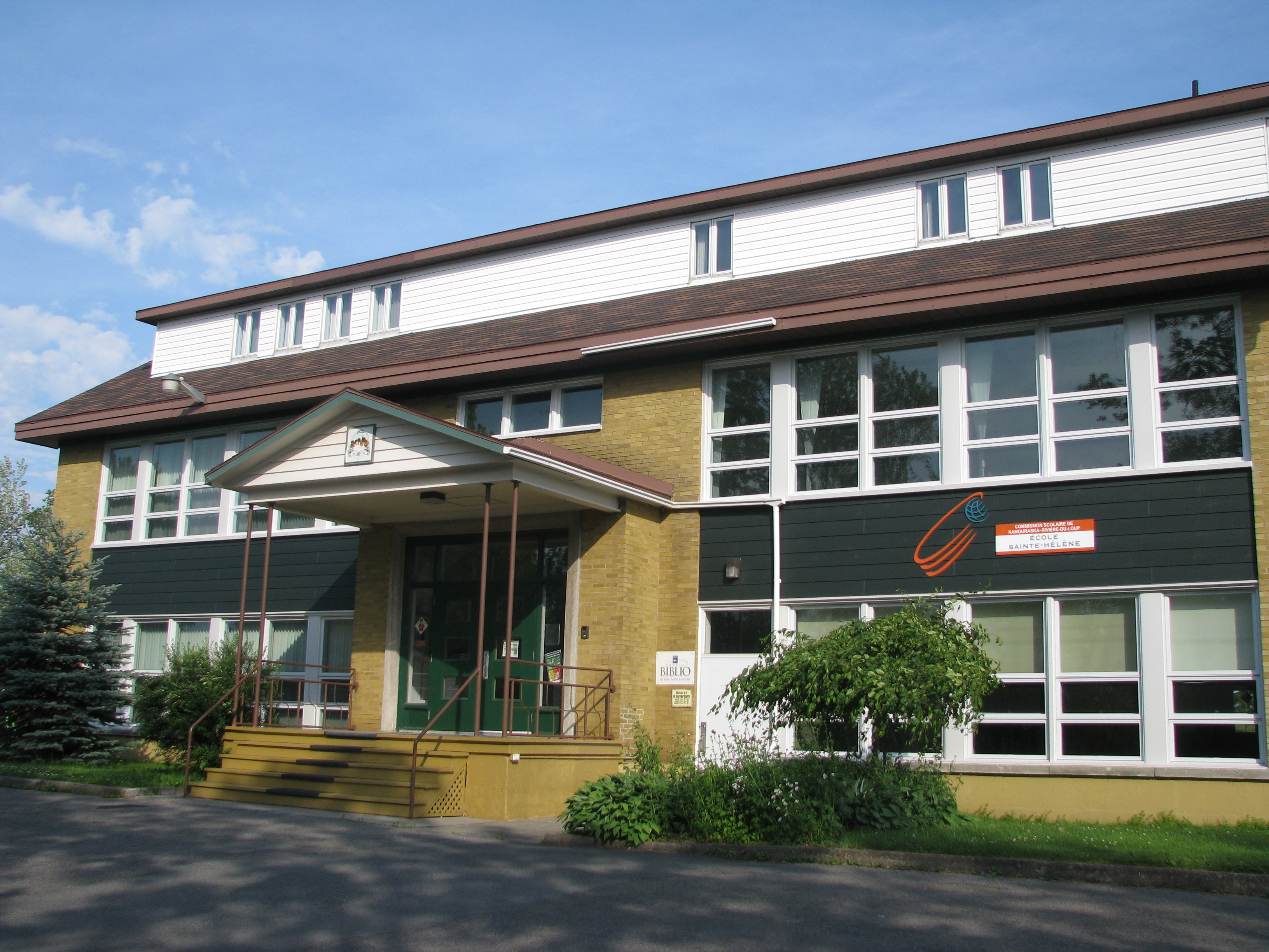 Elementary school in Sainte-Hélène, Quebec, Canada